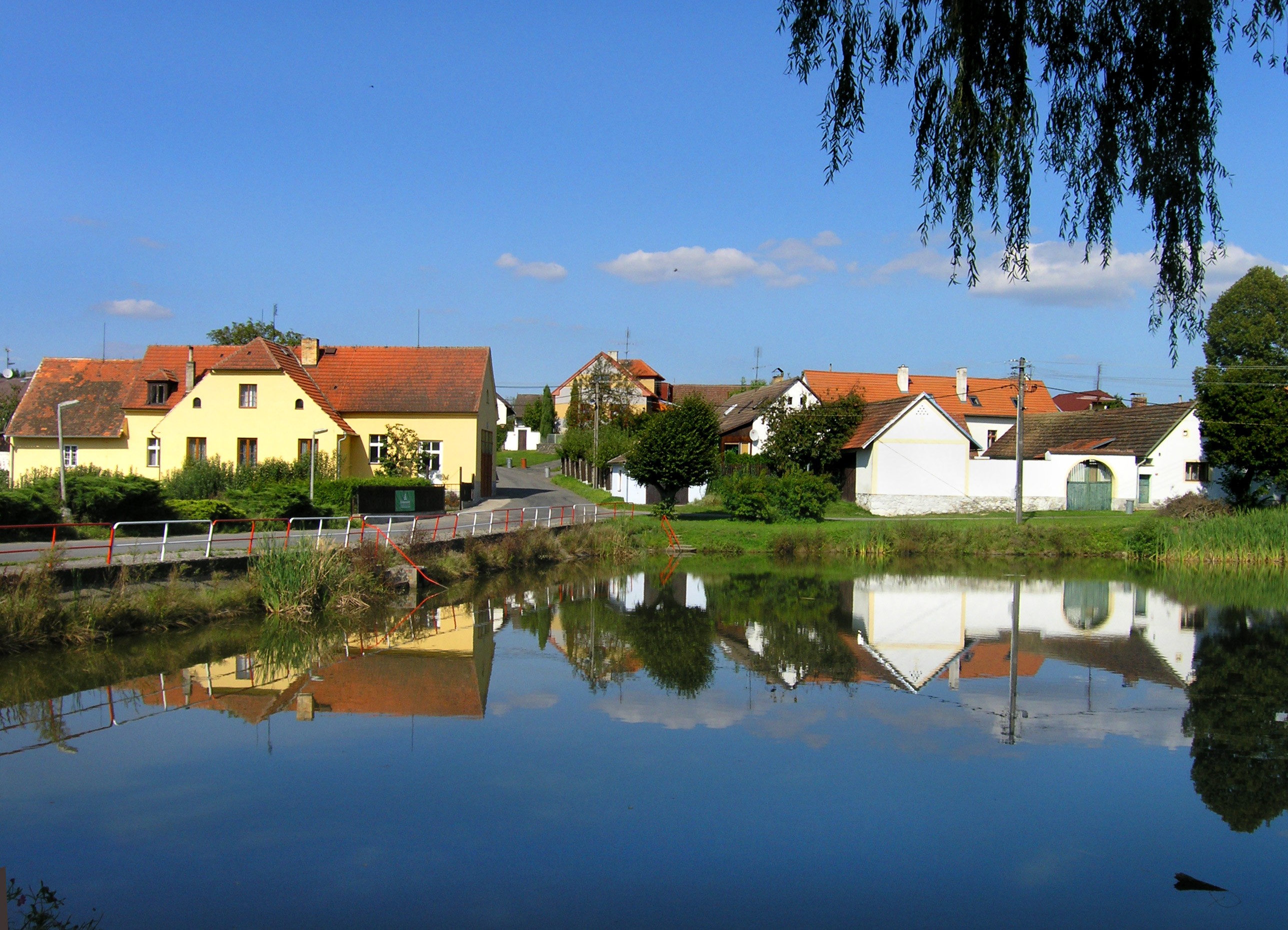 Common pond in Dražičky village, Czech Republic